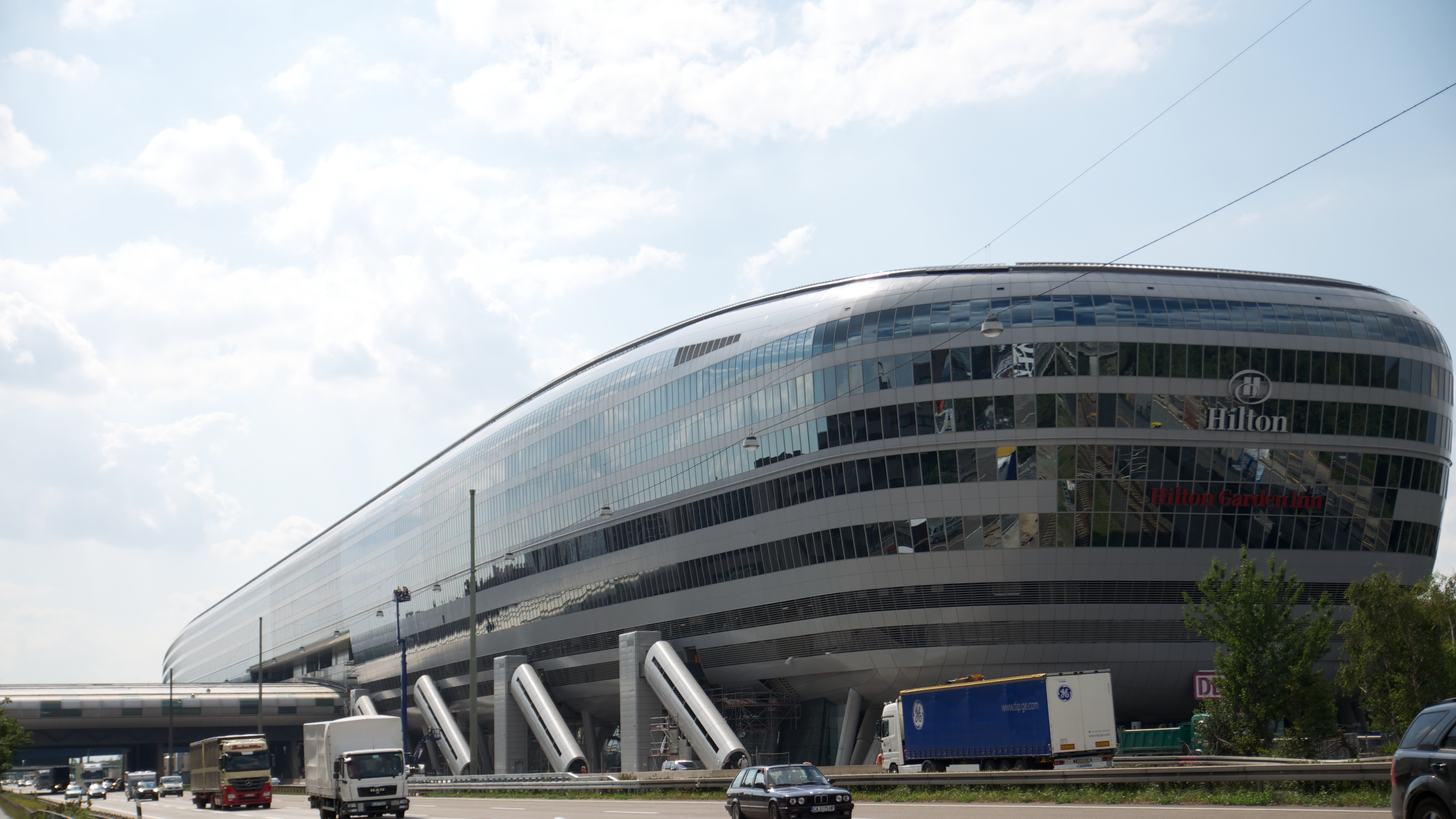 The Squaire, an office building on top of the railway station at Frankfurt Airport